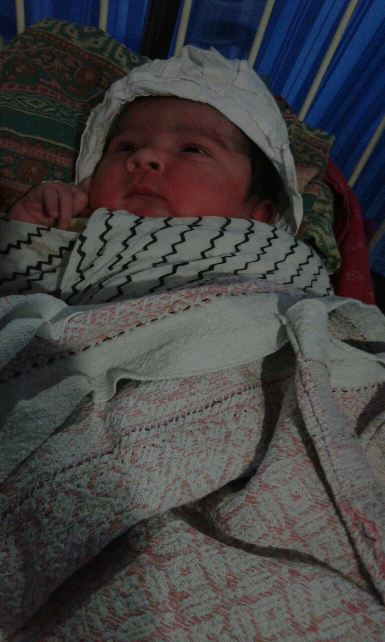 cute new born